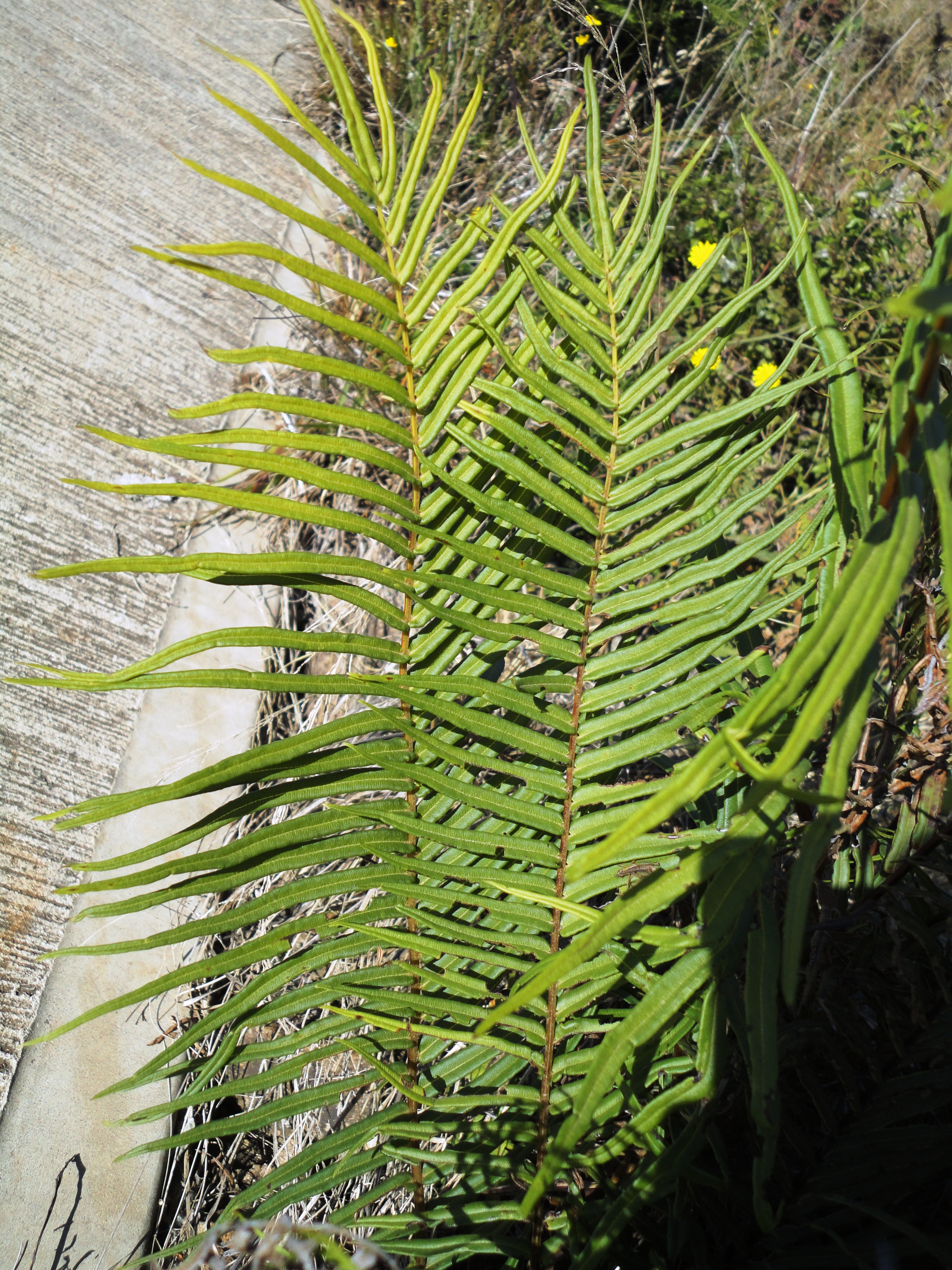 Ladder brake growing on disturbed soil beside a mountain track, near Louwsburg, South Africa